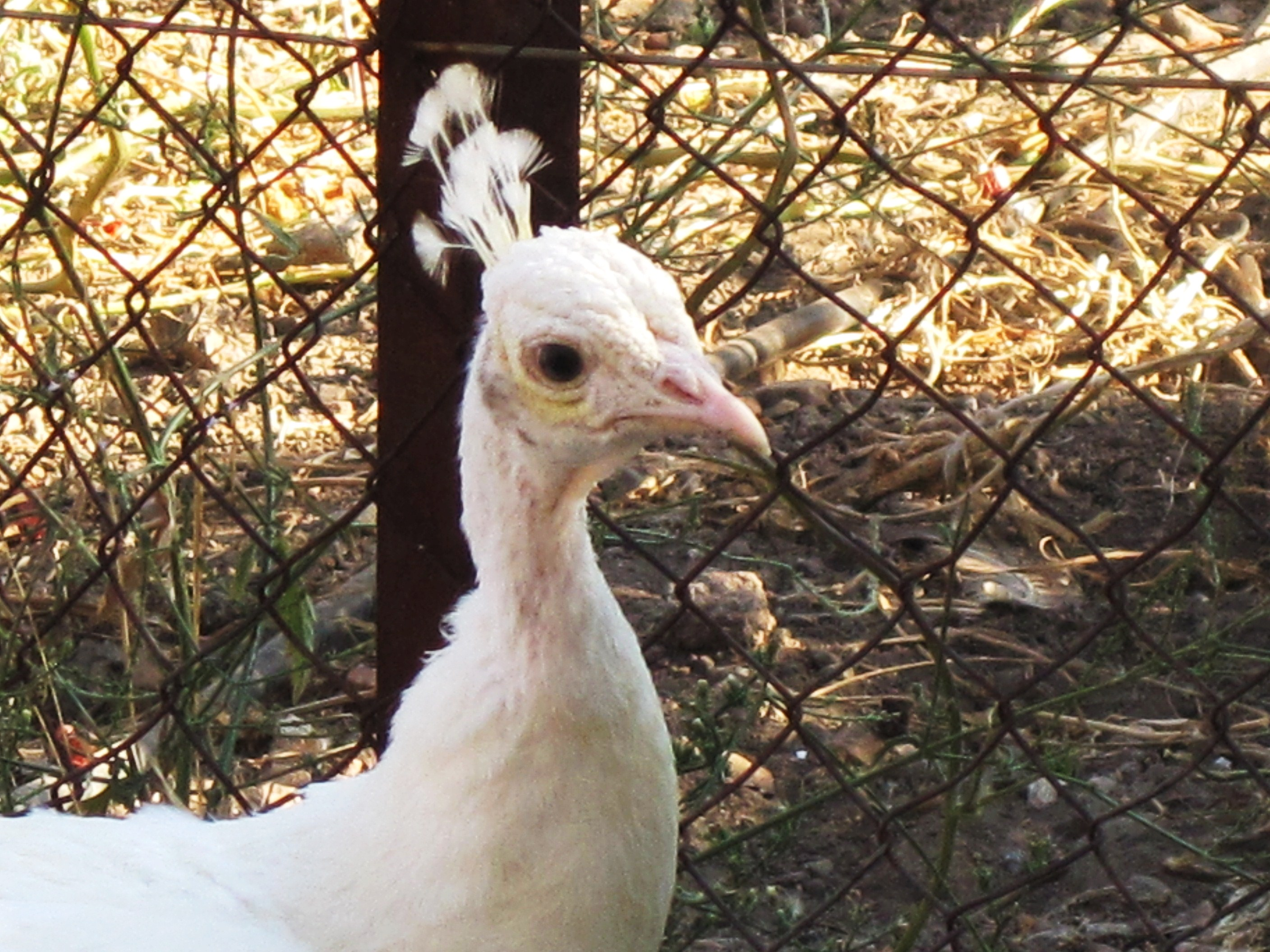 Pavo cristatus mut. alba (White Peafowl), Limonas Monastery, Kalloni, Lesbos, Greece